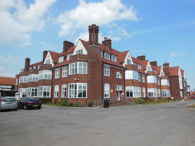 University of Hull, Scarborough Campus (now University College Scarborough) in 2013